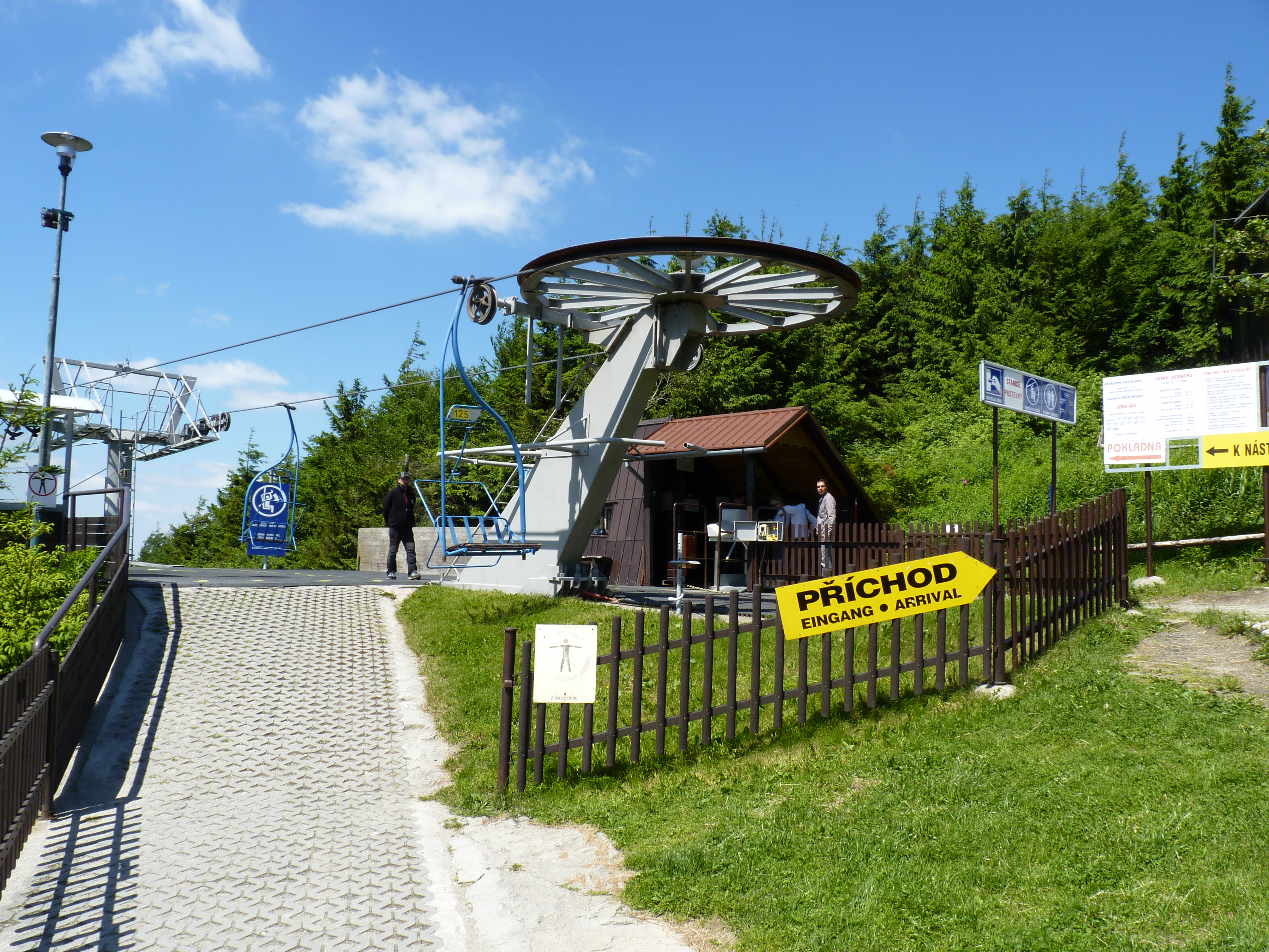 Pustevny in Moravian-Silesian Beskids